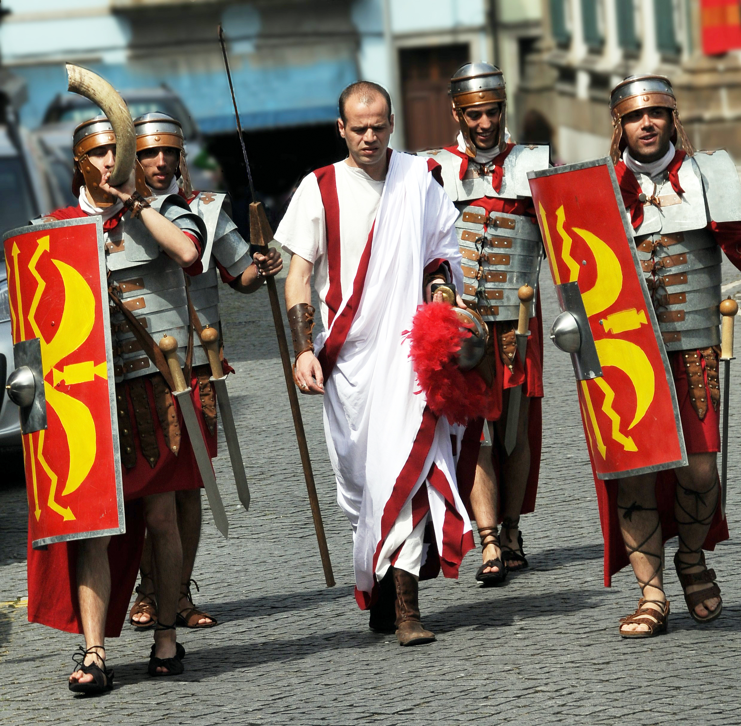 Romans in the Roman Market, Braga, Portugal.